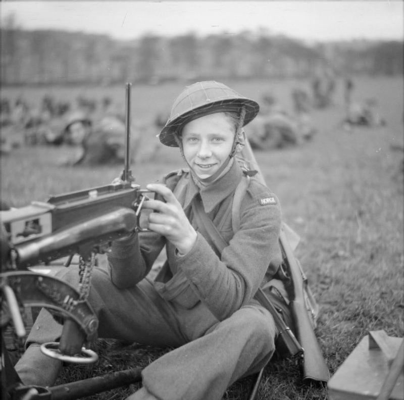 Allied Forces in the United Kingdom 1939-45 A Norwegian soldier operates a Vickers machine-gun, Coatbridge, Scotland, 10 November 1940. Comment : it's not loaded so he's not operating it. Posing with it is more accurate.